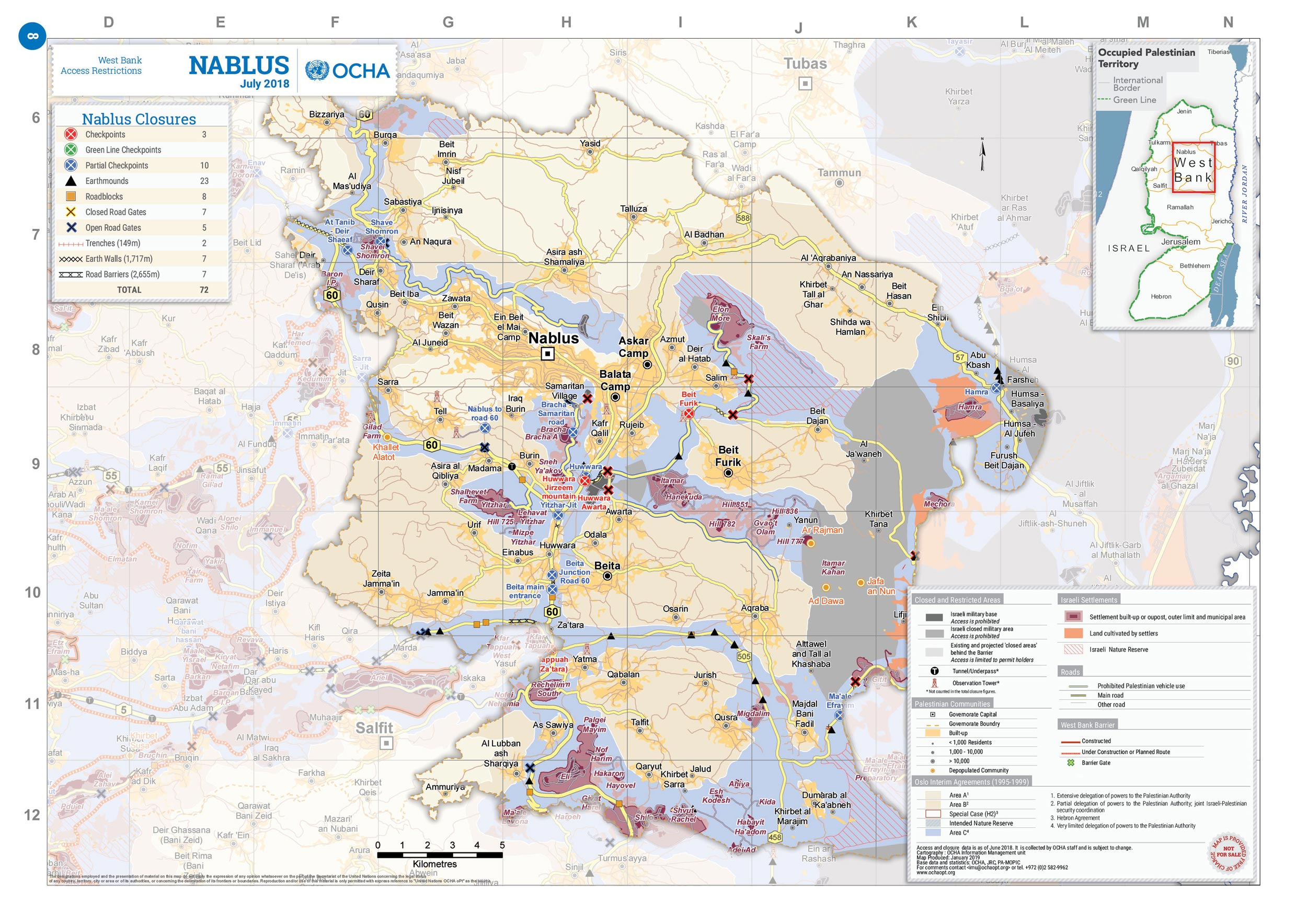 2018 OCHA OpT map